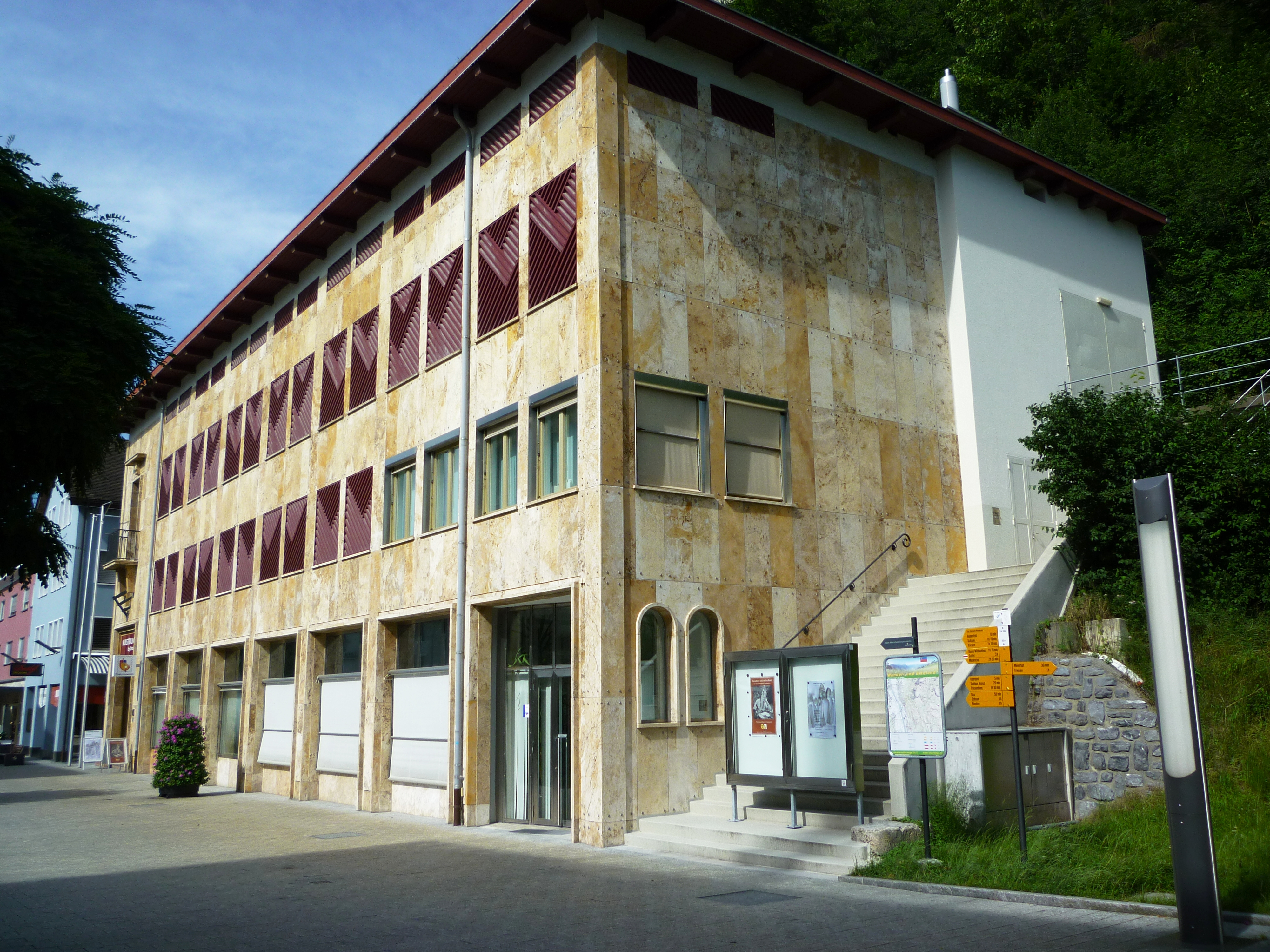 "Engländerbau" in Vaduz, the capital of Liechtenstein: location of the Postmuseum of Liechtenstein